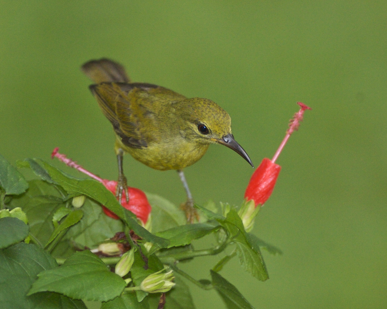 Crimson Sunbird - female Aethopyga siparaja ssp Aethopyga siparaja siparaja Location : Residential Garden, Merryn Road, Singapore 28th. November 2007 First uploaded